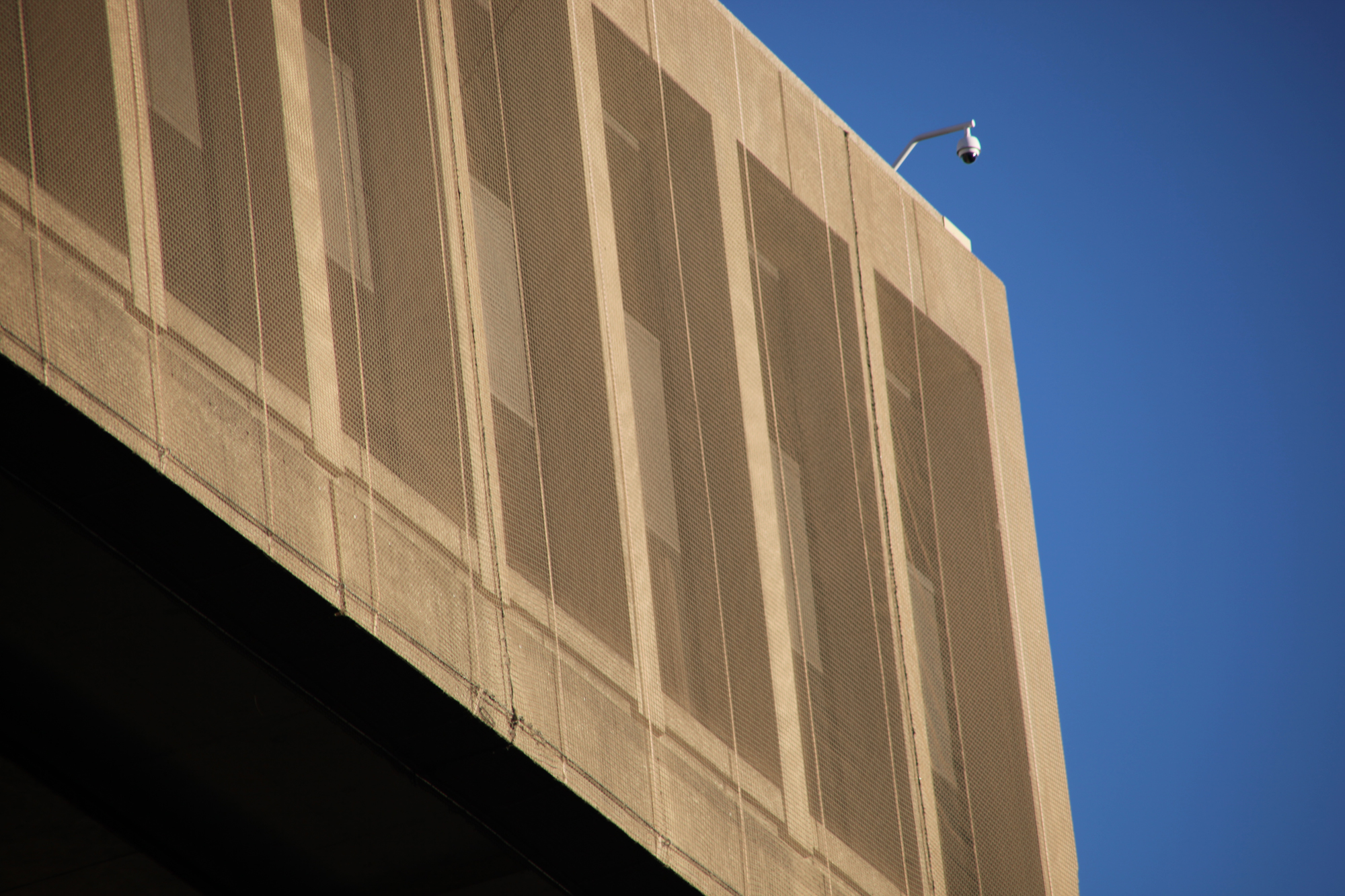 Construction netting covers the top two floors of the west facade of the southwest corner of the J. Edgar Hoover Building (the headquarters of the Federal Bureau of Investigation) on 10th Street NW in Washington, D.C., in the United States. The office building, constructed in the Brutalist style, began construction in 1967 and was completed in 1975. Poorly designed, poorly constructed, and poorly maintained, chunks of concrete began breaking off the upper floors in 2006. A contractor removed loose pieces, and hung construction netting around the upper floors to protect pedestrians on the busy streets below.